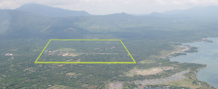 Aerial view of the Lt.Col. Wisnu Airfield, Buleleng county, Bali, Indonesia.